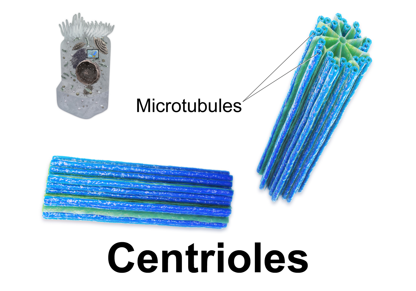 Centrioles. See a full animation of this medical topic.